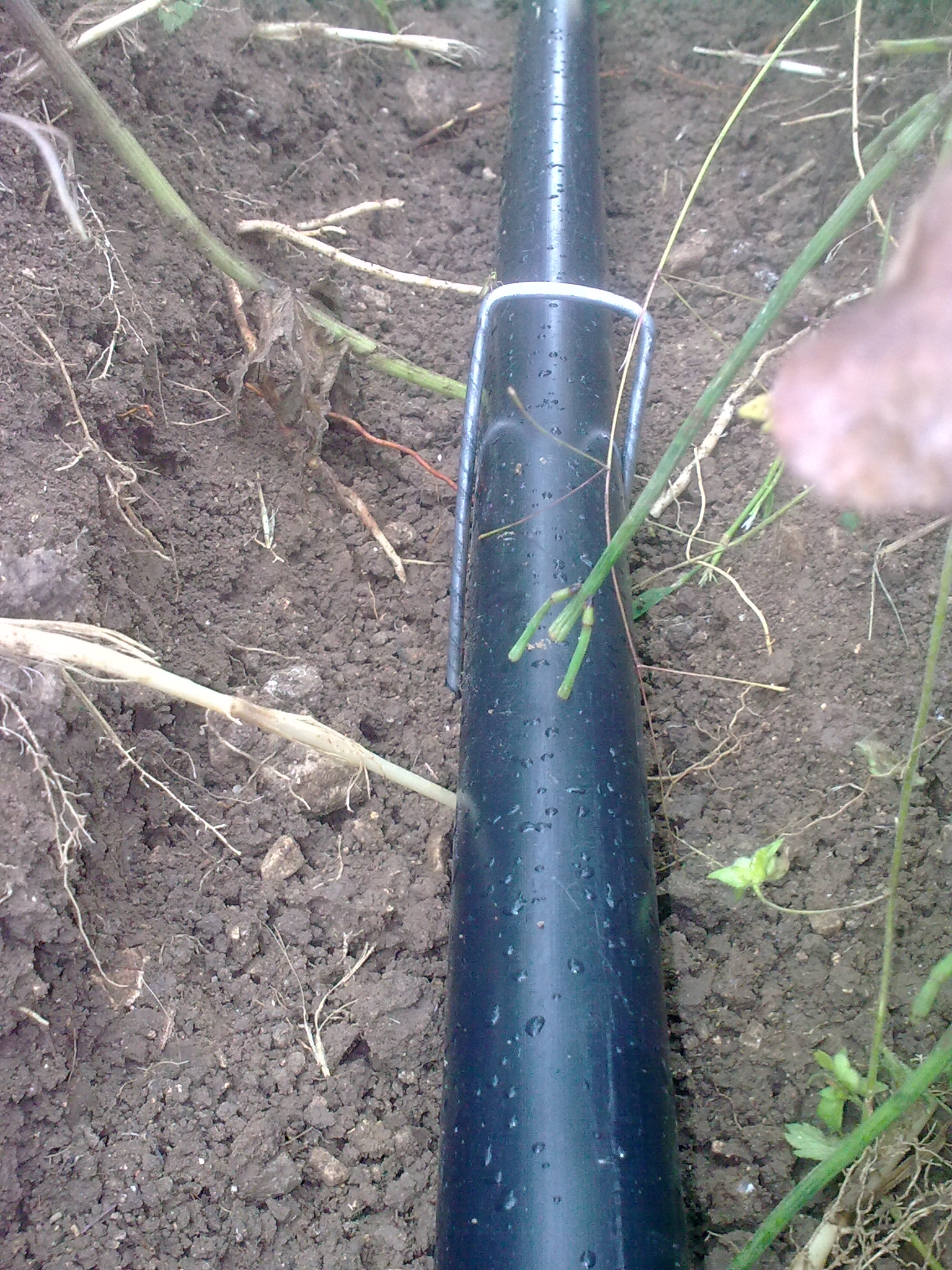 Photo by M. Boulard - Nyons (France), June 2012